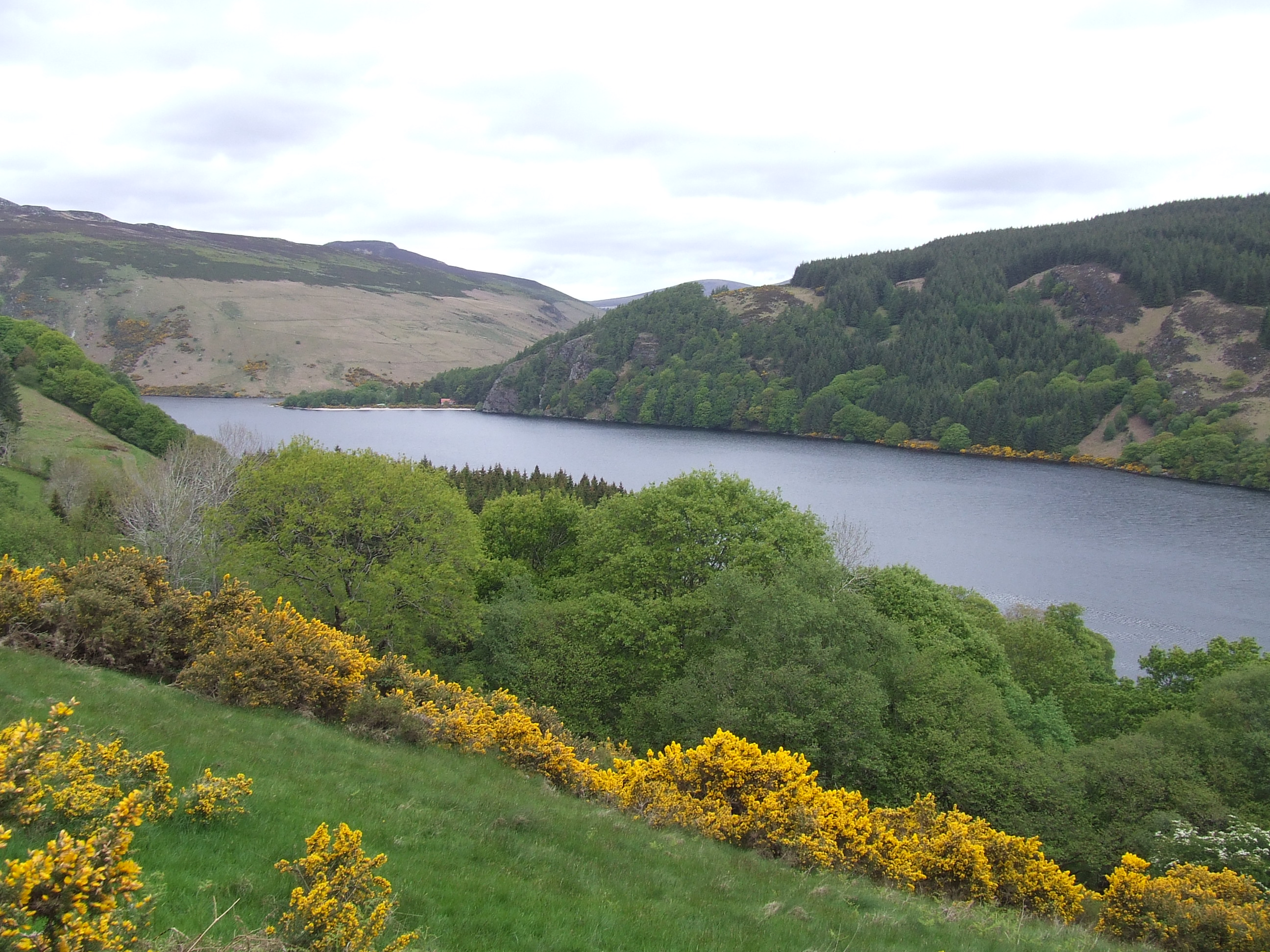 Lough Dan, Wicklow Mountains National Park, May 2105. Looking north from the west bank.